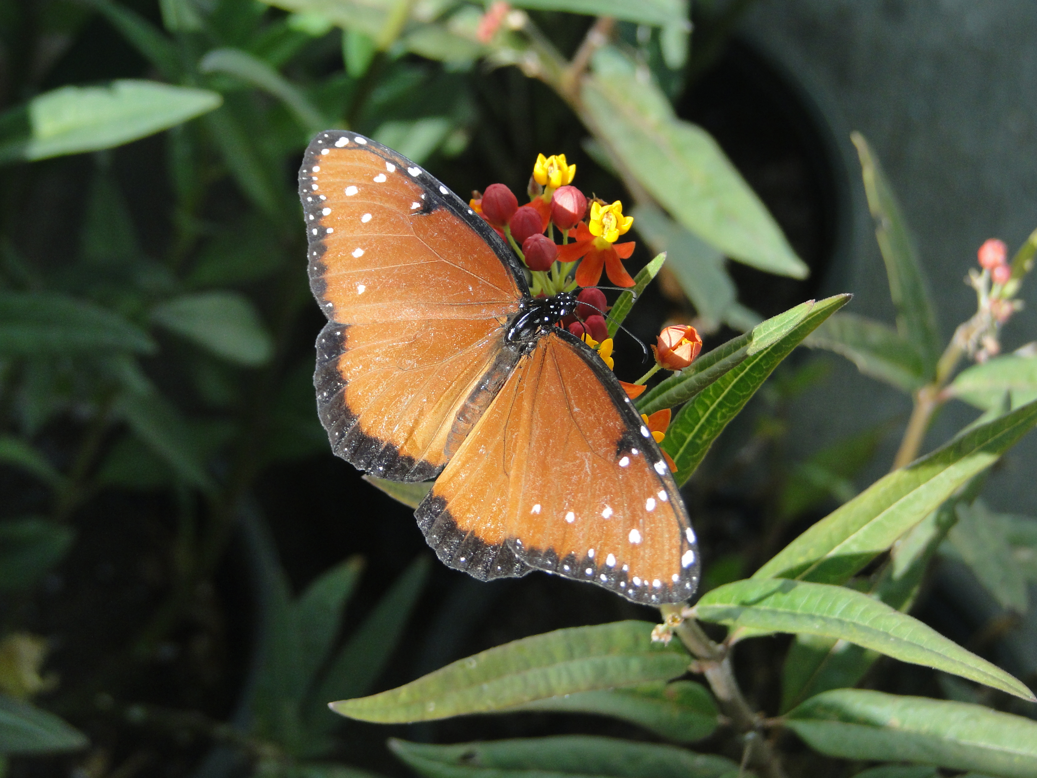 A queen butterfly in St. Louis, Missouri